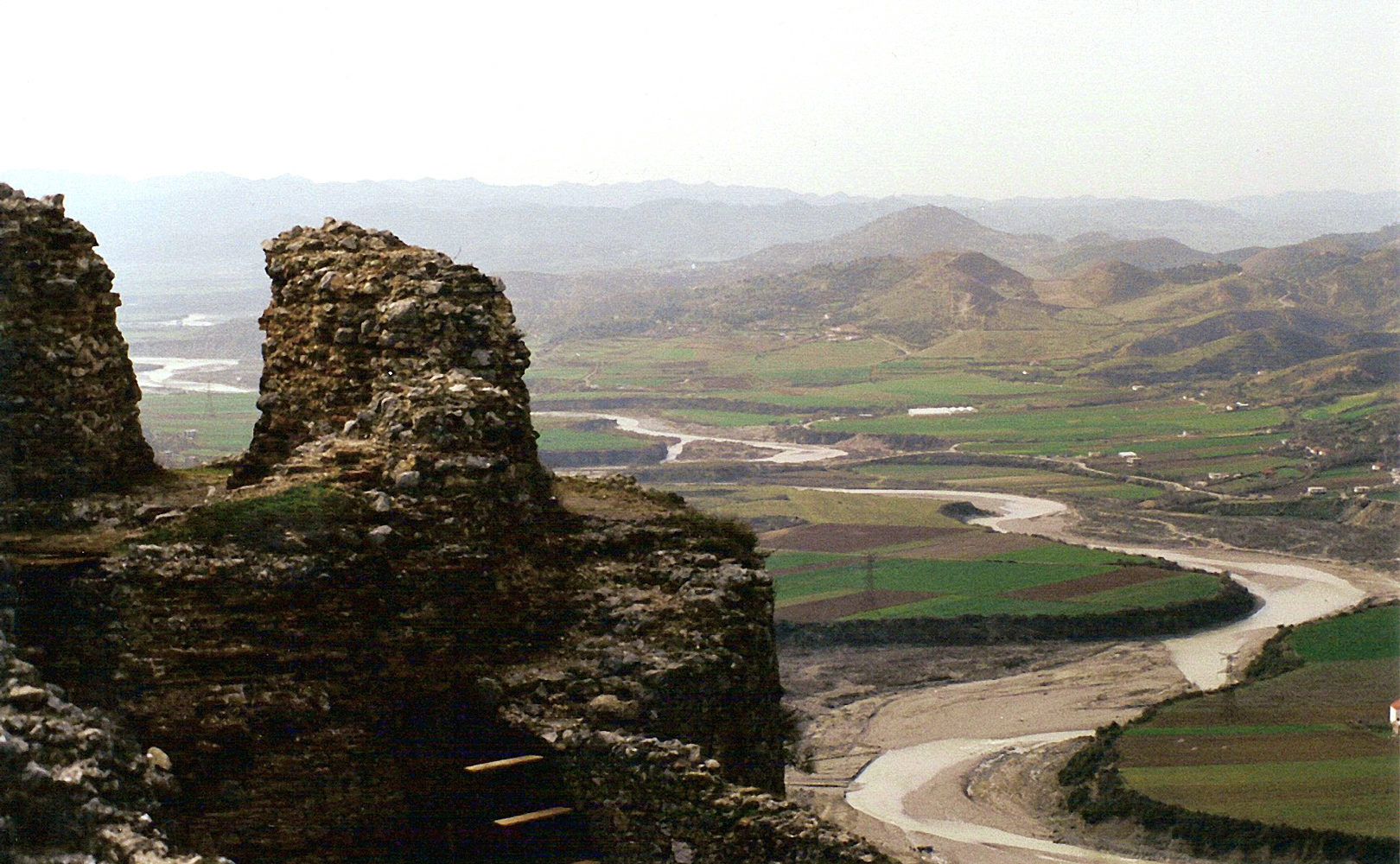 Valley of Erzen River south of Tirana as seen from Petrela Castle